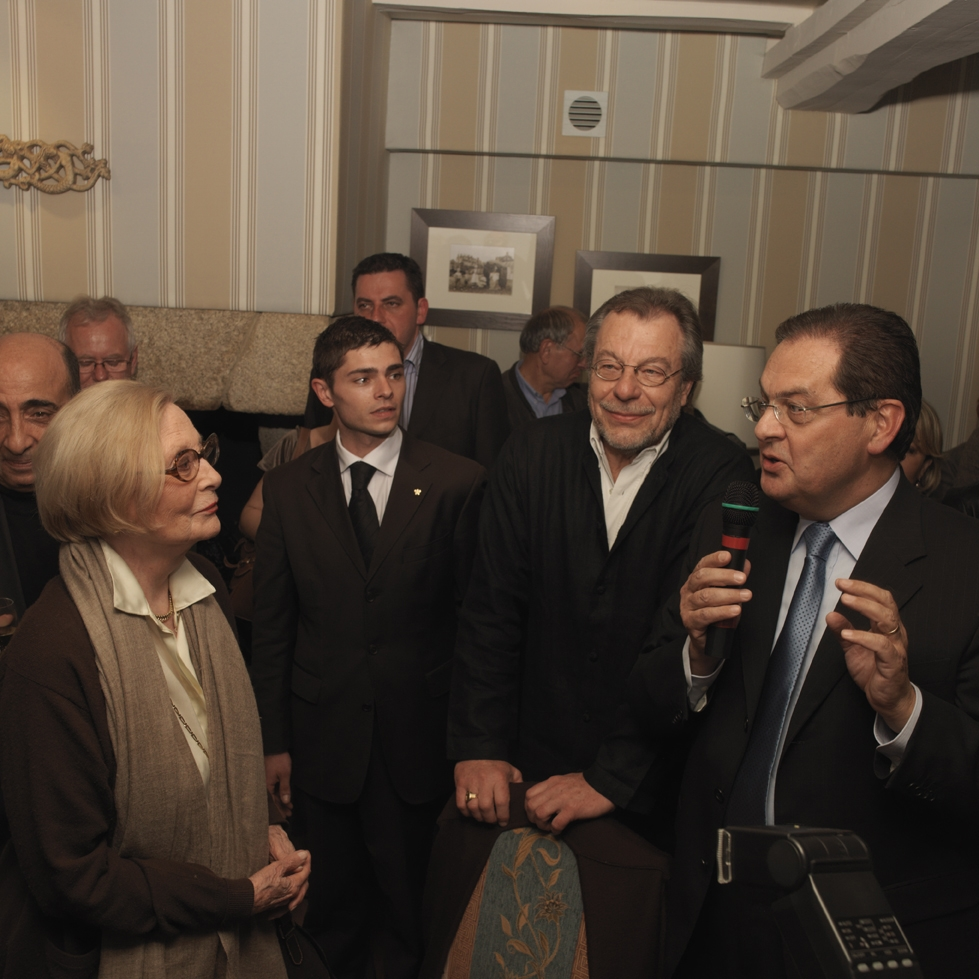 Rochevilaine's Springs